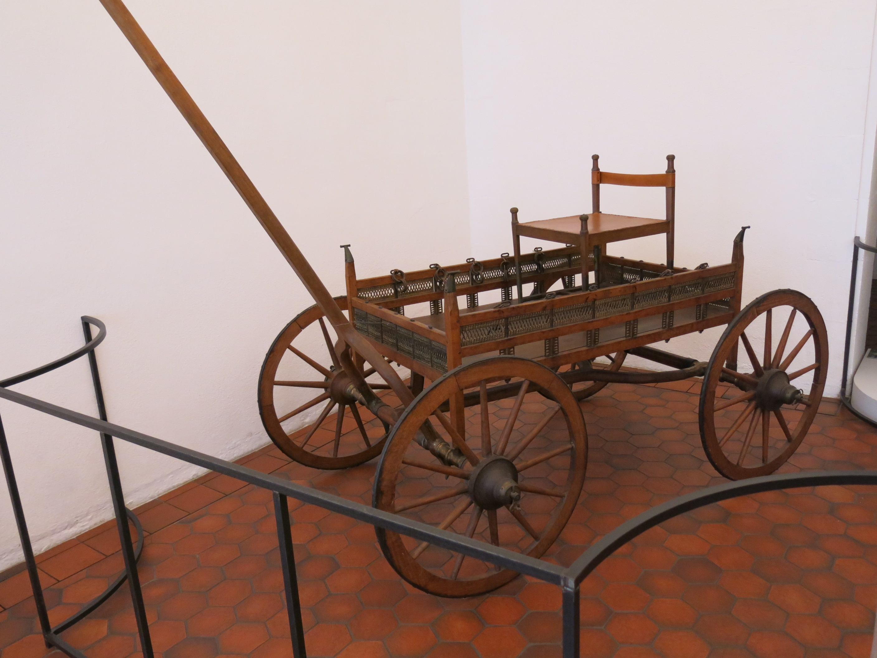 Funerary chariot in the archeological museum of Strasbourg (Bas-Rhin, France). It is the replica of a funerary chariot placed in a grave.